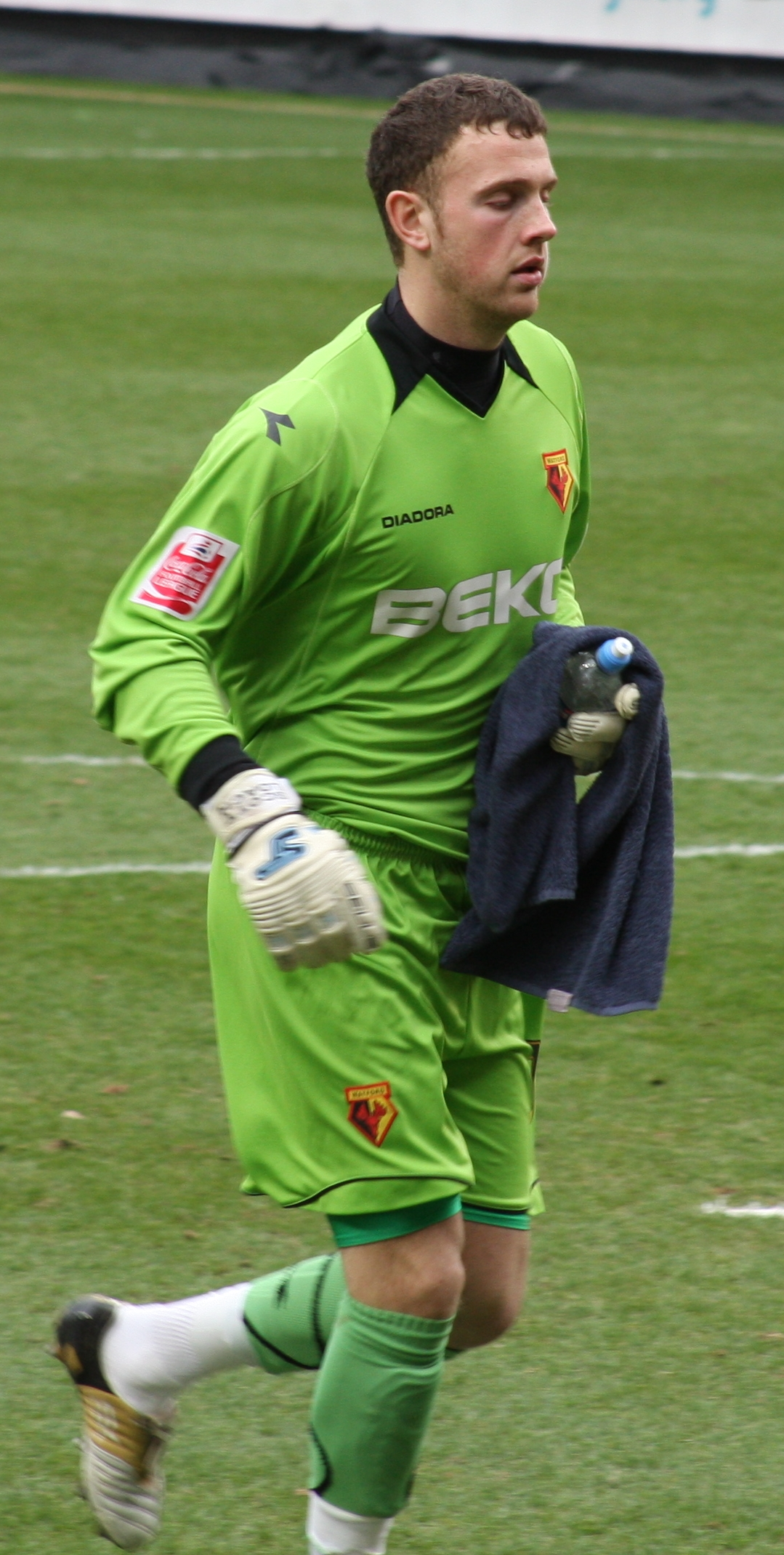 Scott Loach playing for Watford against Charlton Athletic at The Valley, London on 7 March 2009